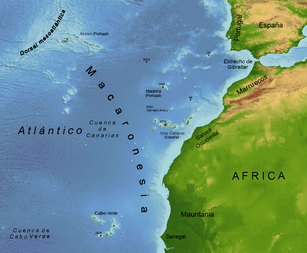 Macaronesia map (labels in Spanish).